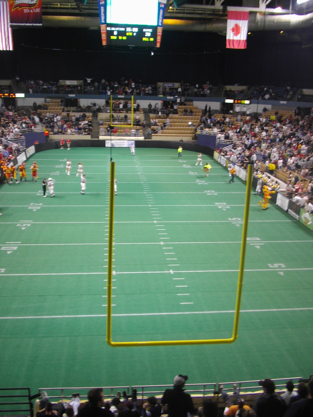 I took this picture at the initial home game on April 14, 2007